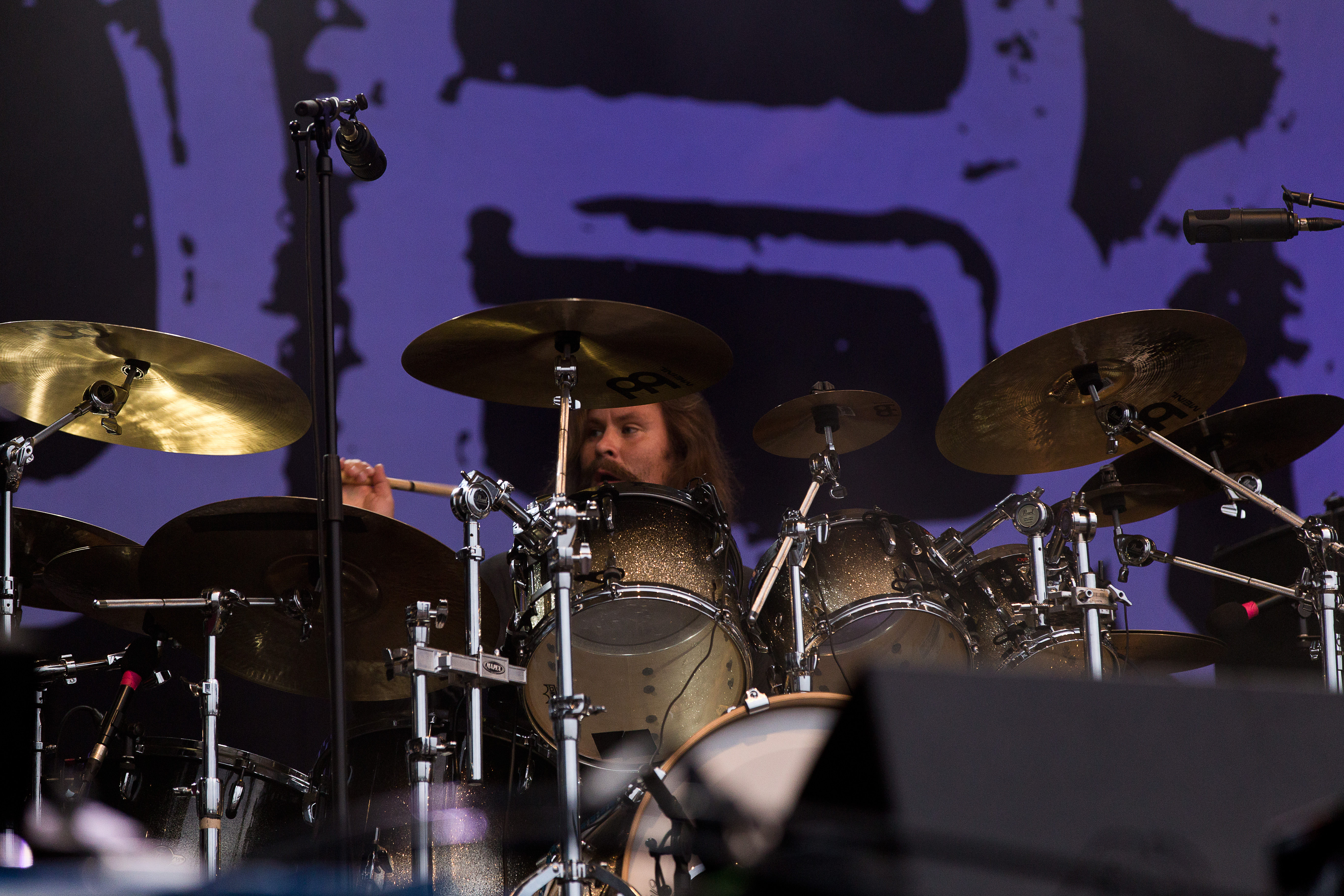 The Finnish melodic death metal band Children of Bodom at the Rockharz Open Air 2016 in Ballenstedt/Germany.